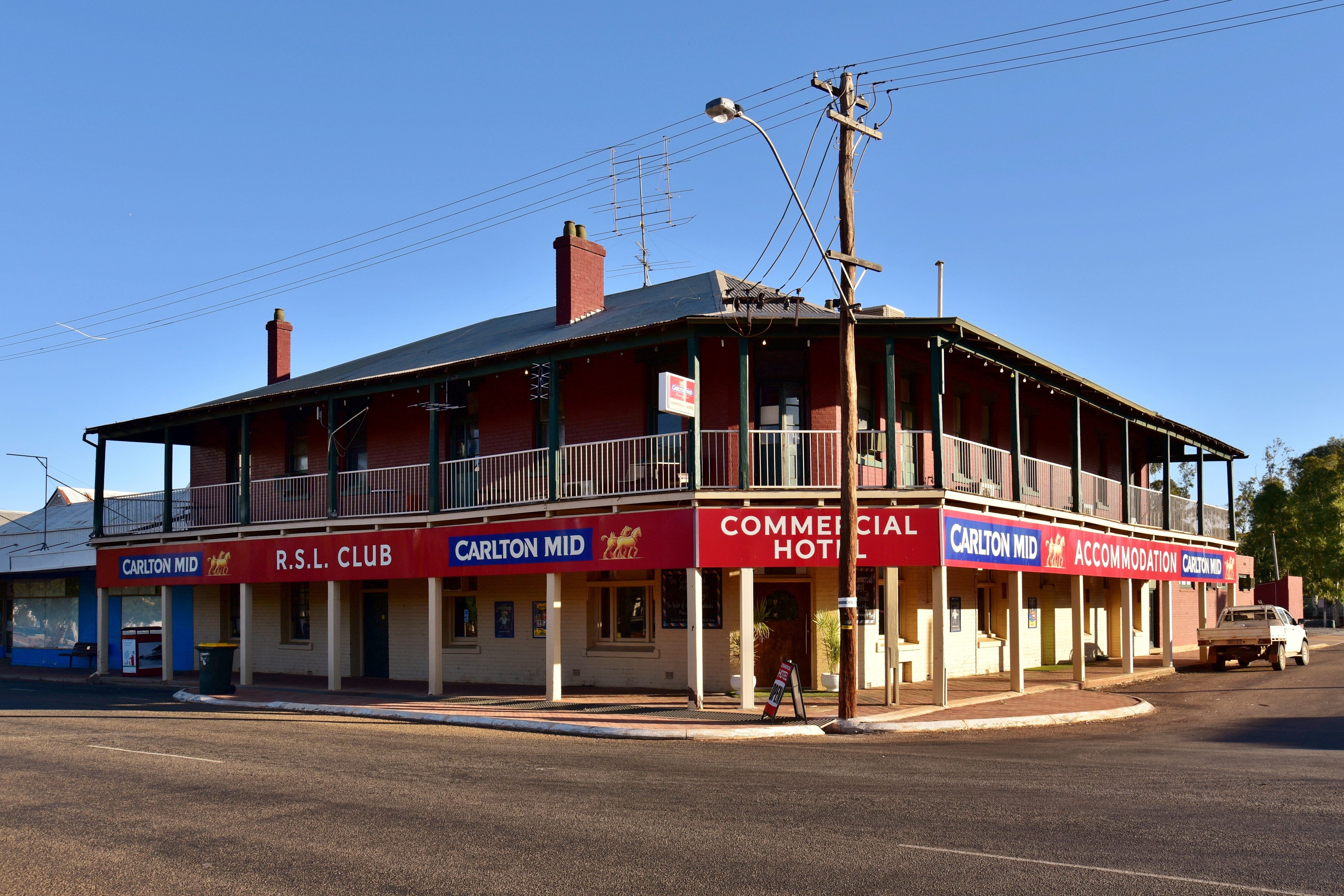 View of the Commercial Hotel, Railway Road, Three Springs, Western Australia